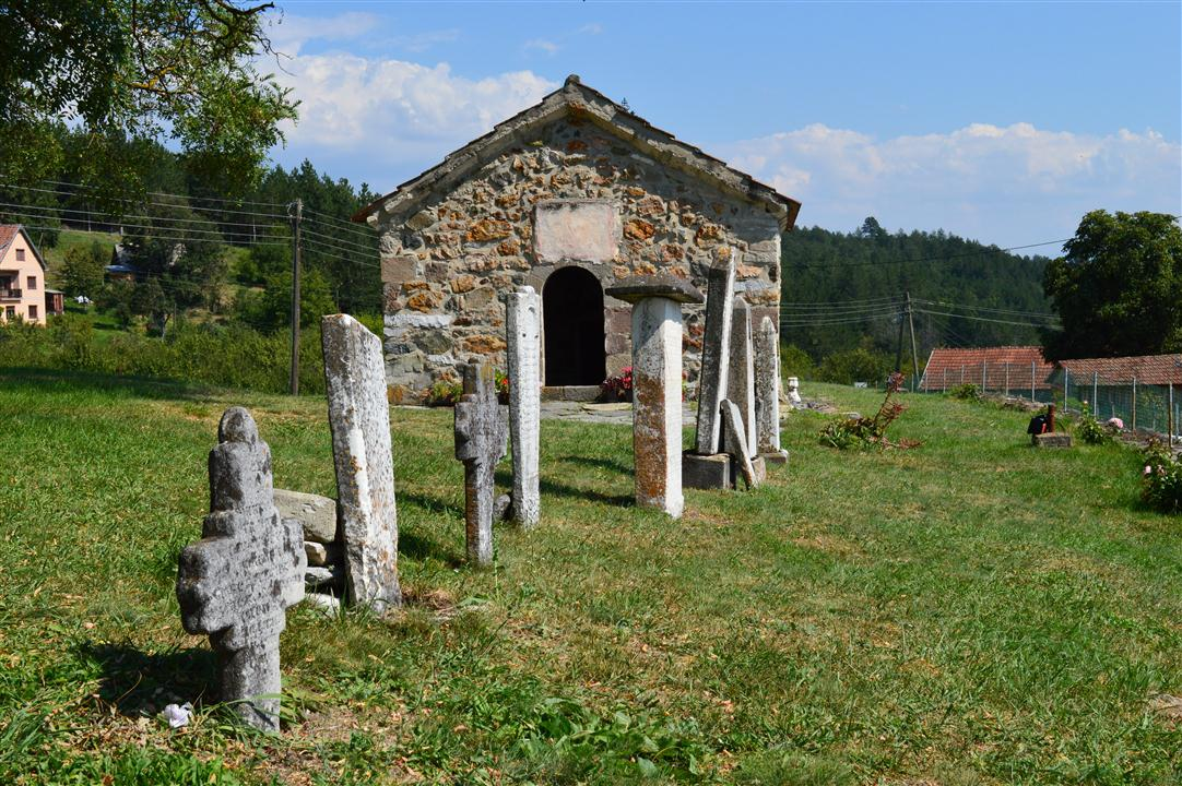 Raska Municipality - Church of St. Petka, Trnava